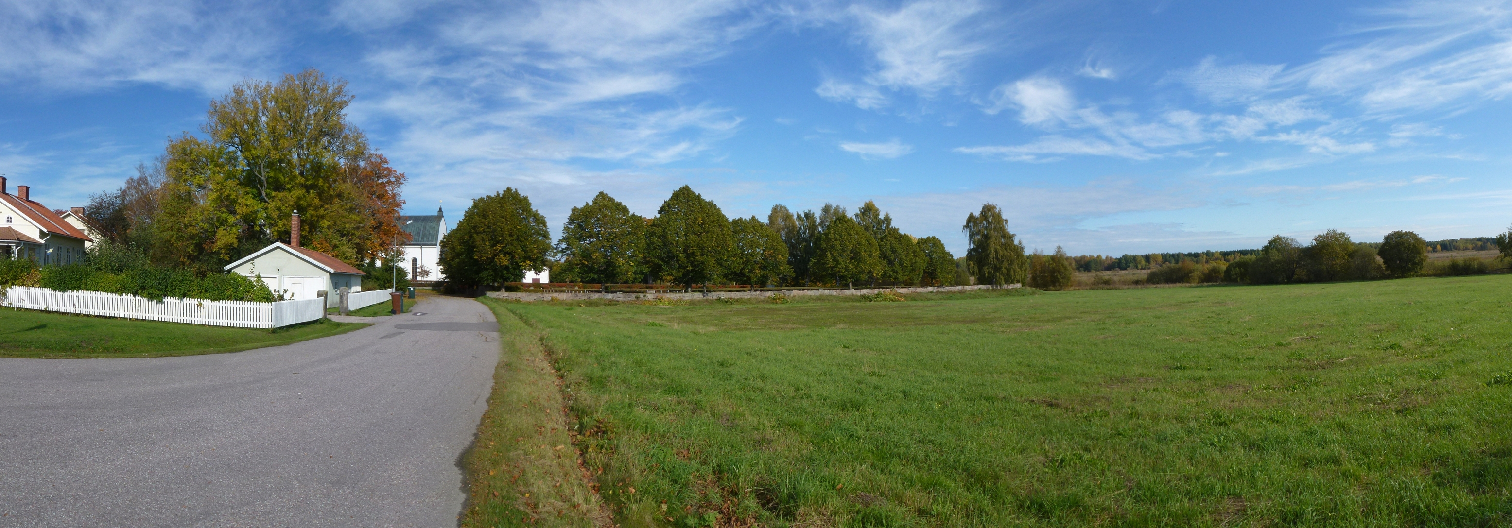 Panorama of landscape just outside Hedesunda